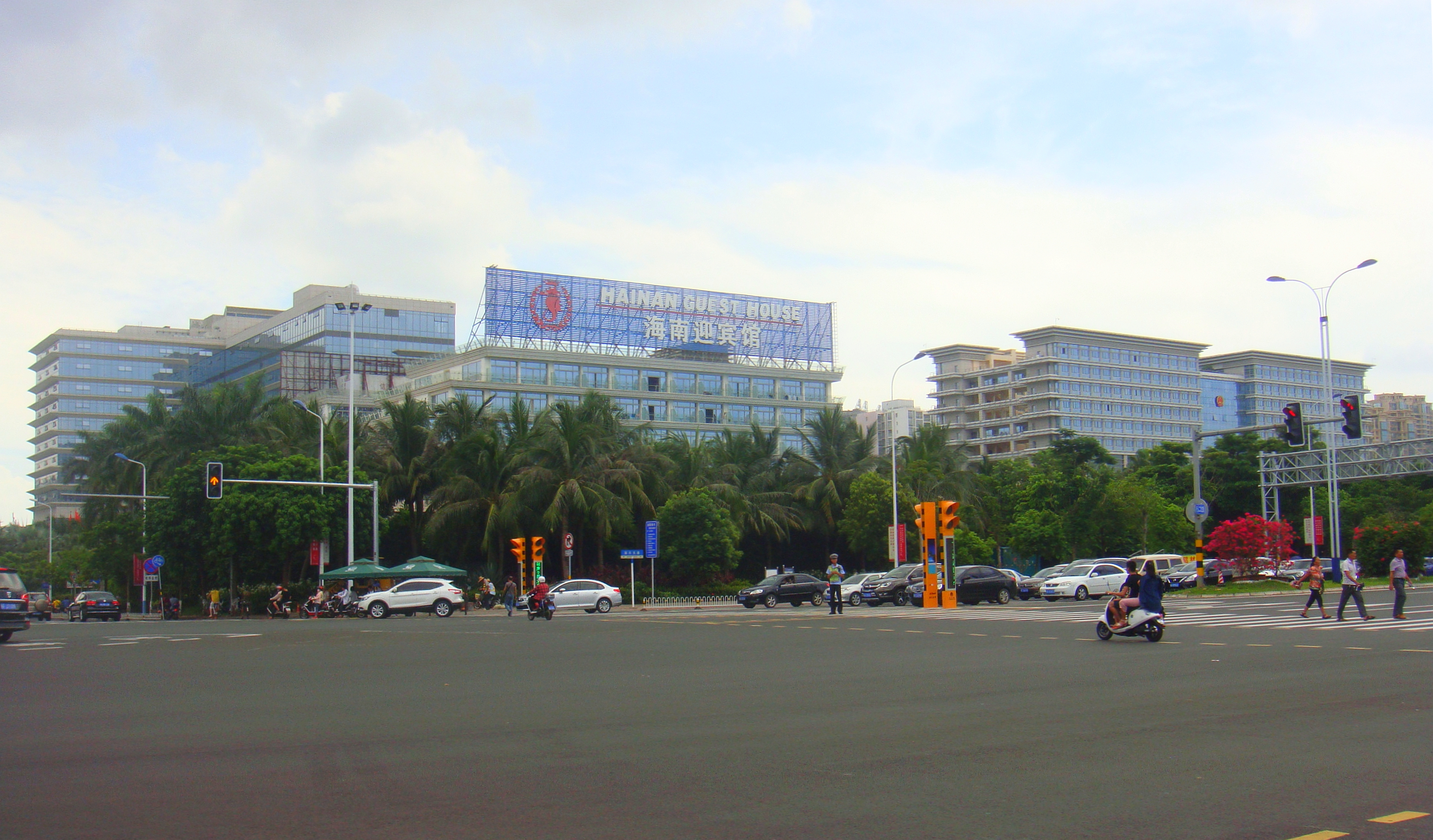 Hainan Guest House, Haikou, Hainan, China